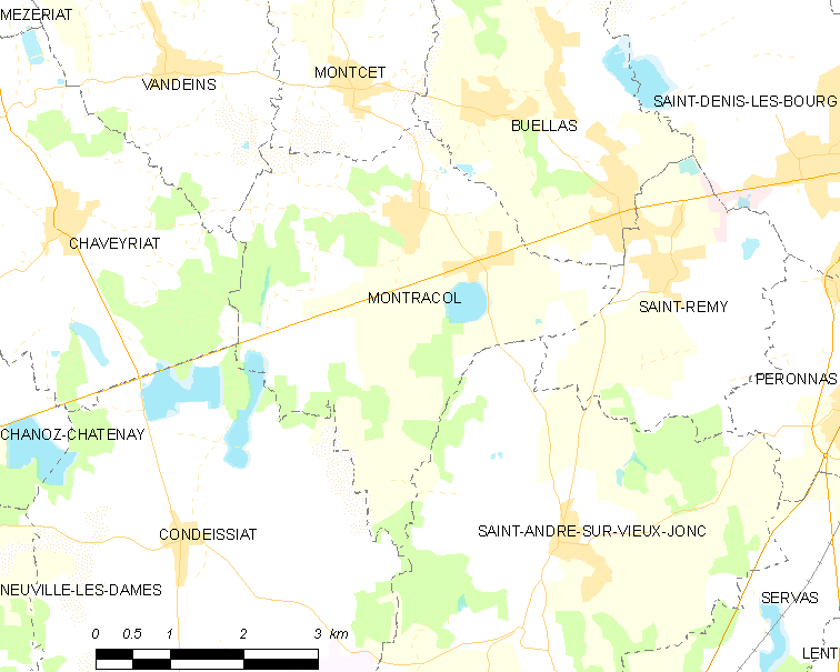 Map of French commune: Montracol Map commune FR insee code 01264.png